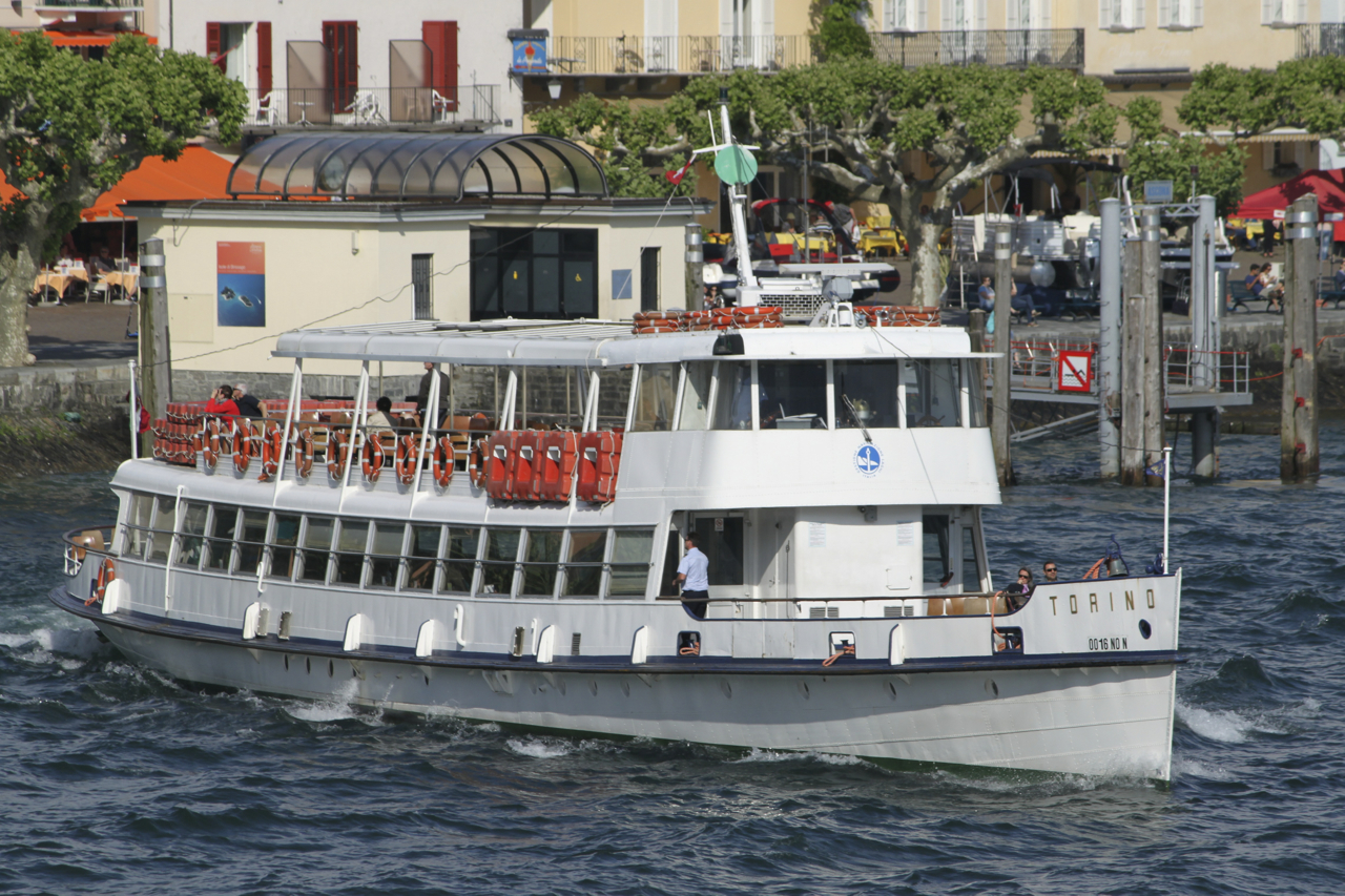 M/N "Torino" at Ascona.